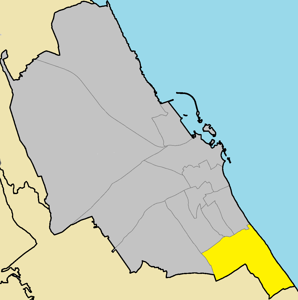 Agios Memnon in Famagusta Municipality (de jure).